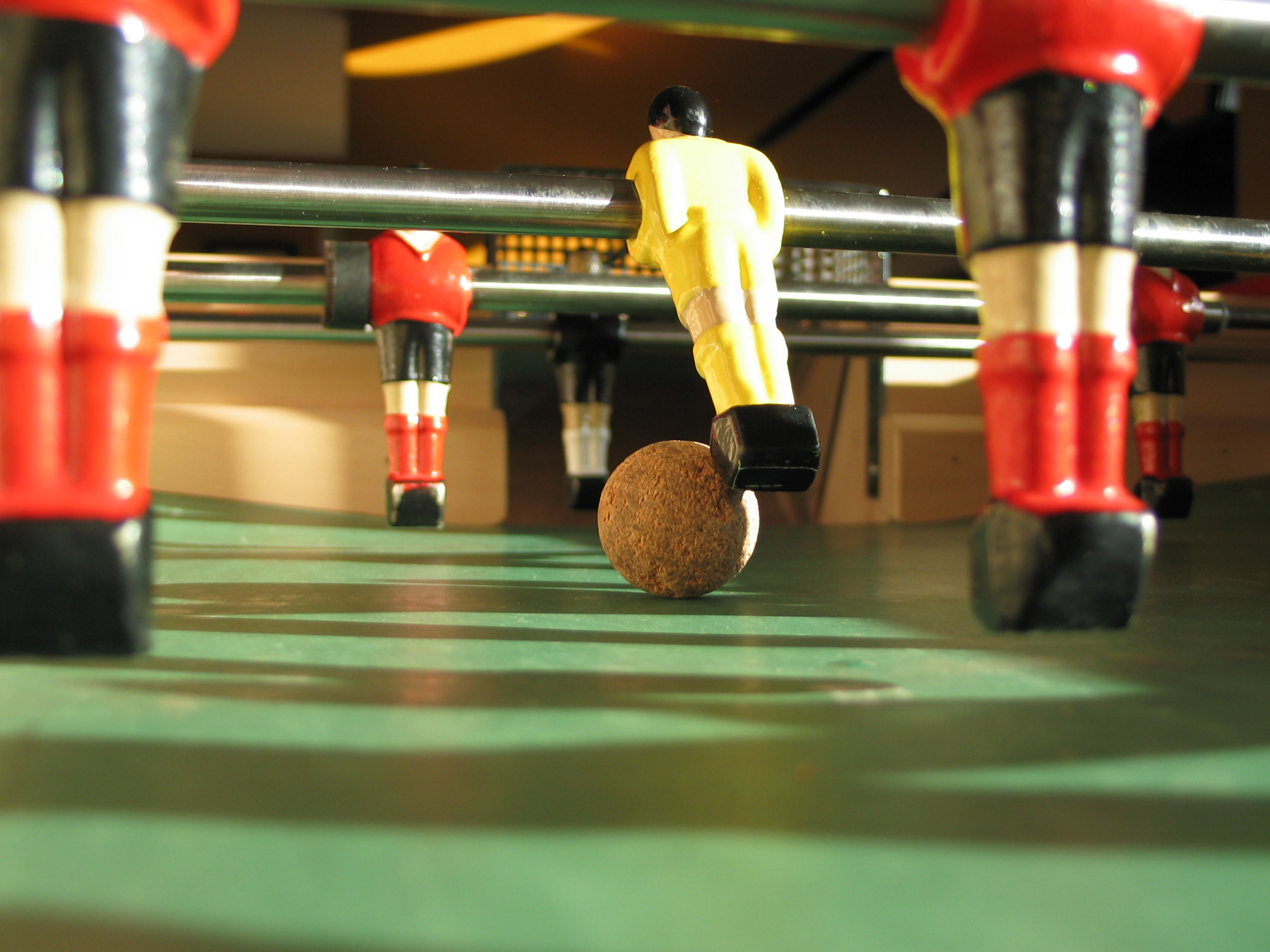 A Petiot football table. A foosman ready to shot.